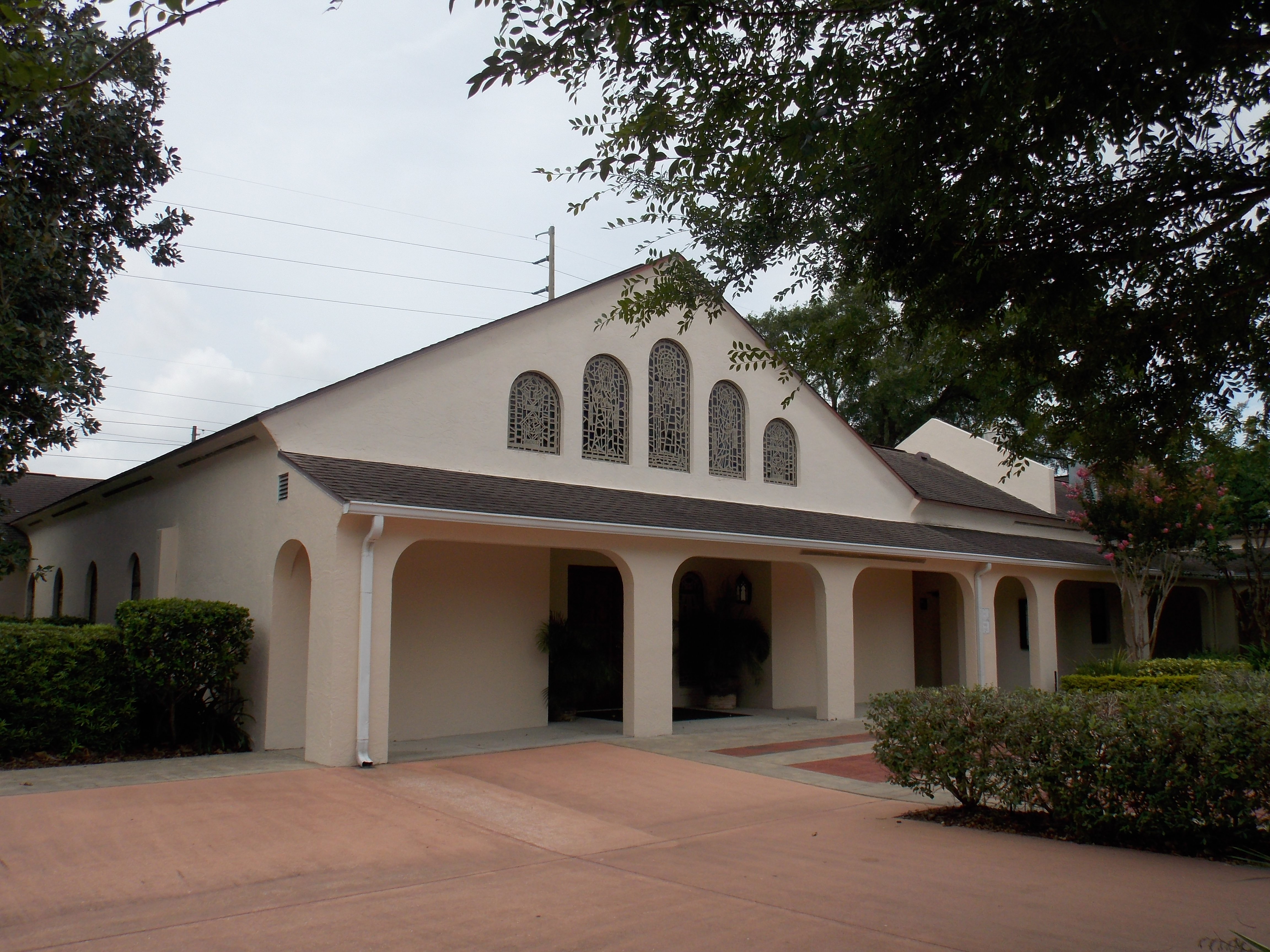 St. Alban's Cathedral (Anglican Province of America) in Oviedo, Florida.